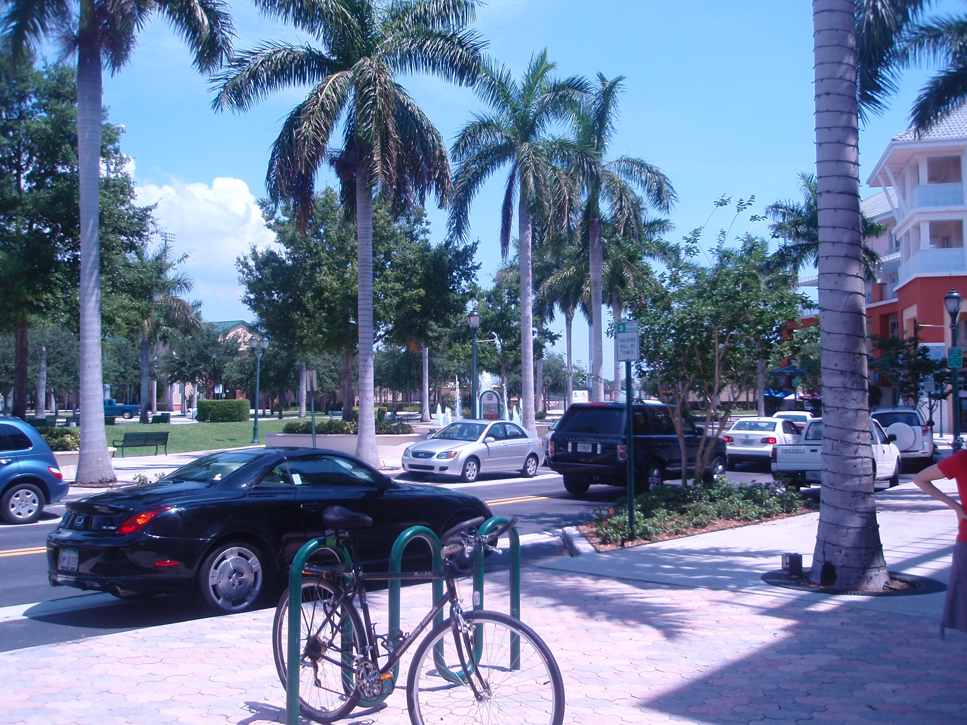 Main Street, Jupiter, Florida, United States.